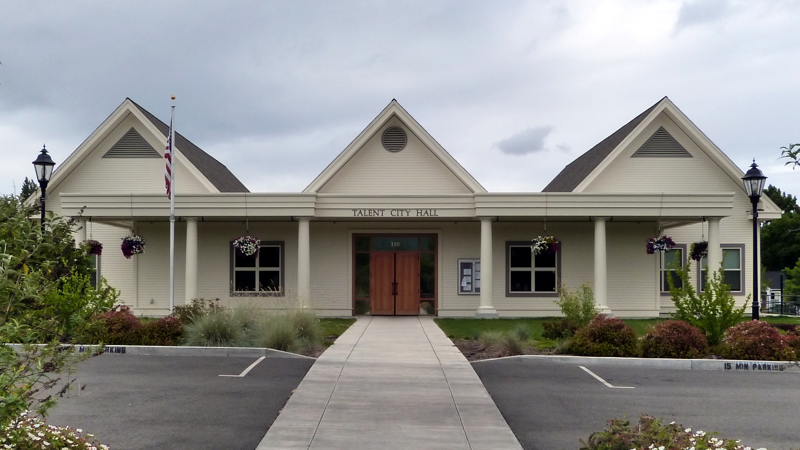 City hall of Phoenix, Oregon, United States, address 110 East Main Street.